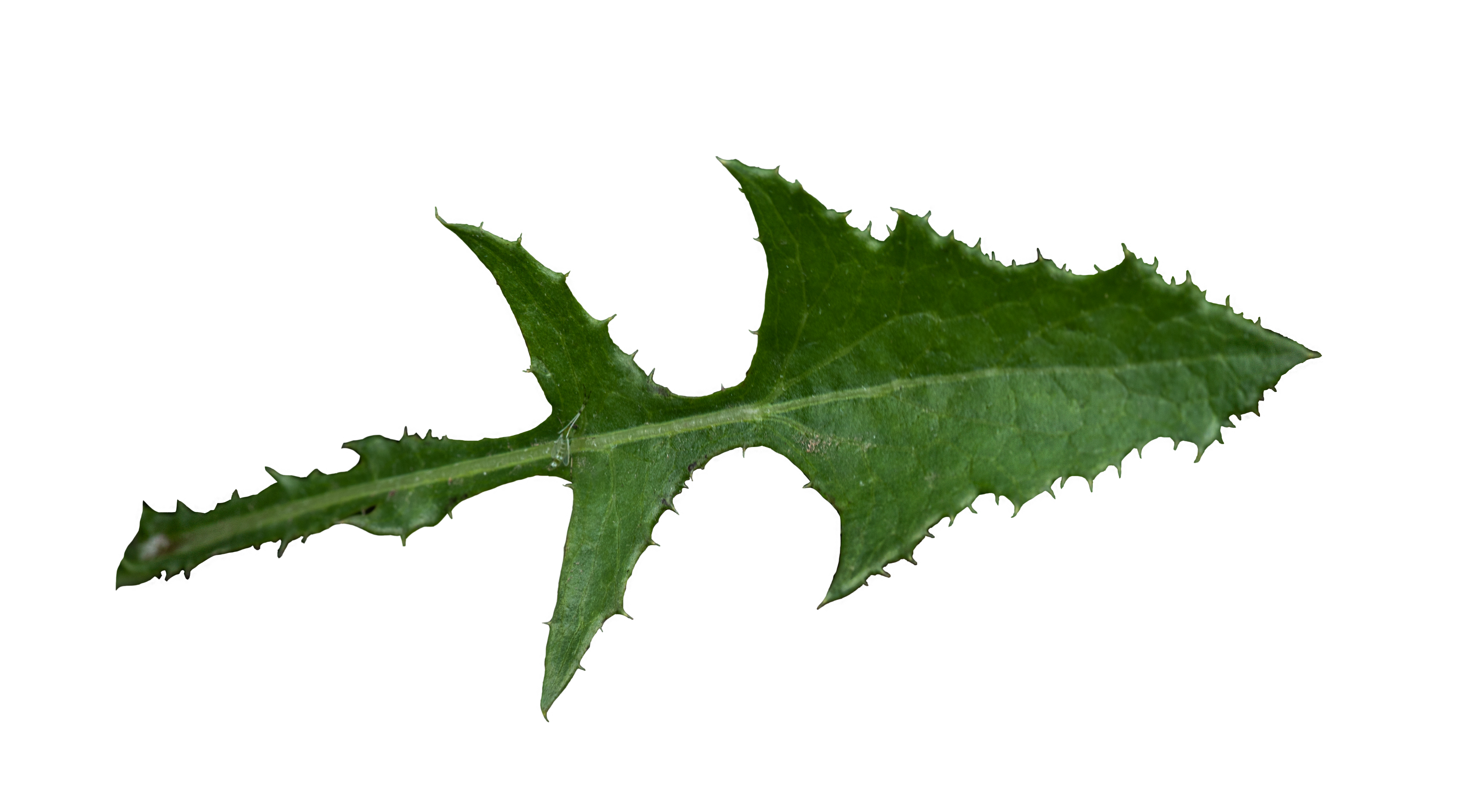 Rucinate leaf of Sonchus oleraceus - shot at Singanallur Southern Lake Bund, Coimbatore, India on 23 July 2016